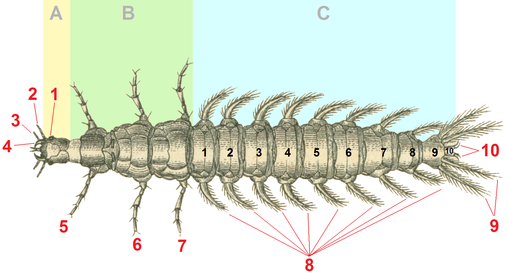 tagged version of drawing of a larva